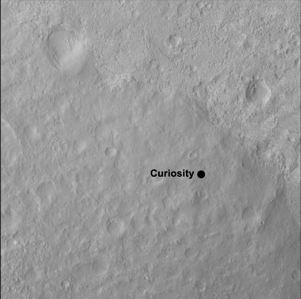 08.10.2012 Curiosity's Quad This image shows the quadrangle where NASA's Curiosity rover landed, now called Yellowknife. The mission's science team has divided the landing region into several square quadrangles, or quads, of interest about 1-mile (1.3-kilometers) wide. This will allow groups of team members to focus their analysis on a particular part of the surface. Yellowknife is a city in northwestern Canada and a group of rocks from the same region. The rocks were formed 2.7 billion years ago from both volcanoes and sediments laid down by water, and were deposited over 4-billion-year-old rocks, the oldest known on Earth. The image was obtained by the High-Resolution Imaging Science Experiment (HiRISE) camera on NASA's Mars Reconnaissance Orbiter. HiRISE is one of six instruments on NASA's Mars Reconnaissance Orbiter. The University of Arizona, Tucson, operates the orbiter's HiRISE camera, which was built by Ball Aerospace & Technologies Corp., Boulder, Colo. NASA's Jet Propulsion Laboratory, a division of the California Institute of Technology in Pasadena, manages the Mars Reconnaissance Orbiter Project for the NASA Science Mission Directorate, Washington. Lockheed Martin Space Systems, Denver, built the spacecraft. Image Credit: NASA/JPL-Caltech/Univ. of Arizona